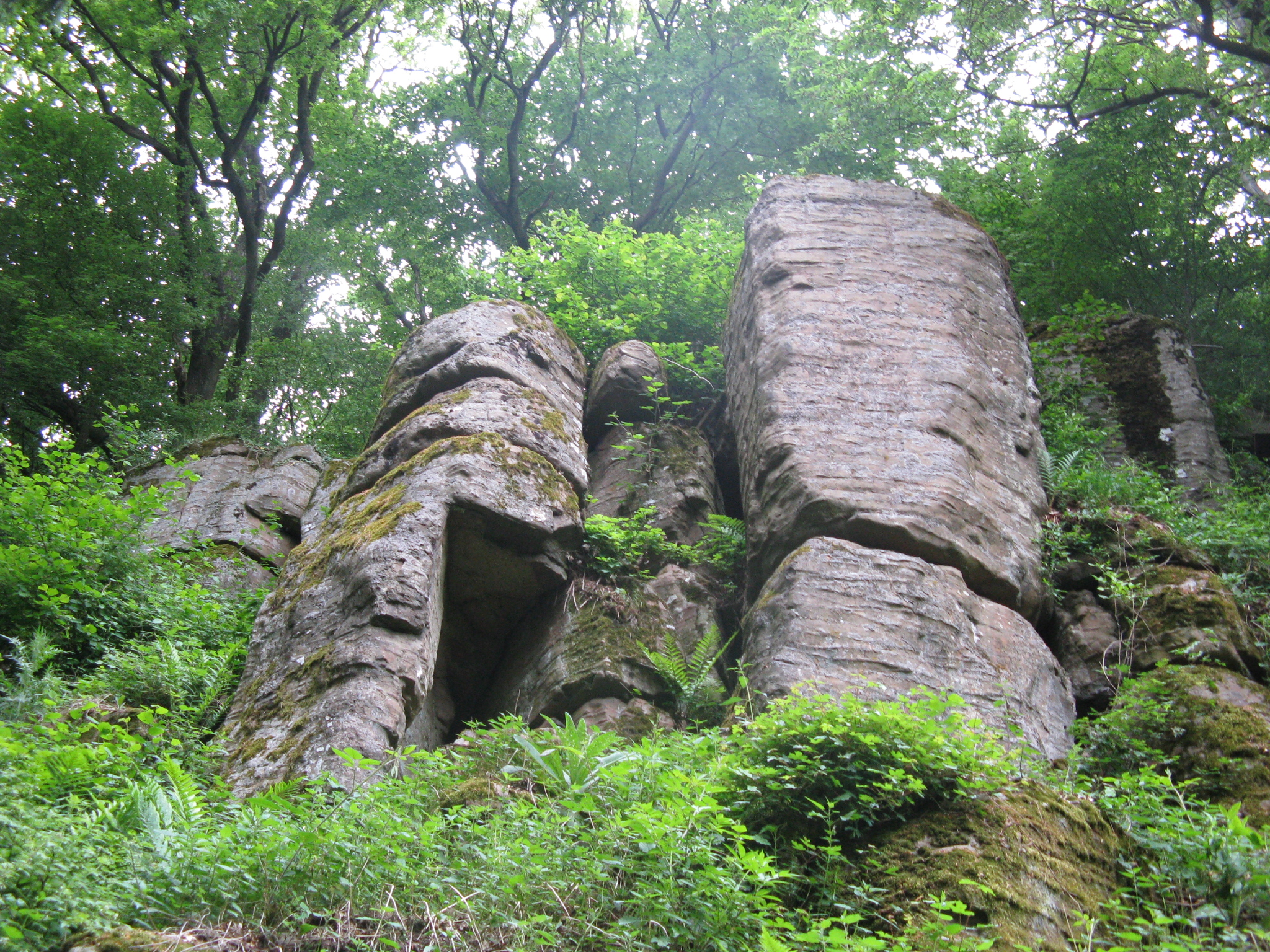 Weiselberg, "Stony Cupboard", Saarland/Germany